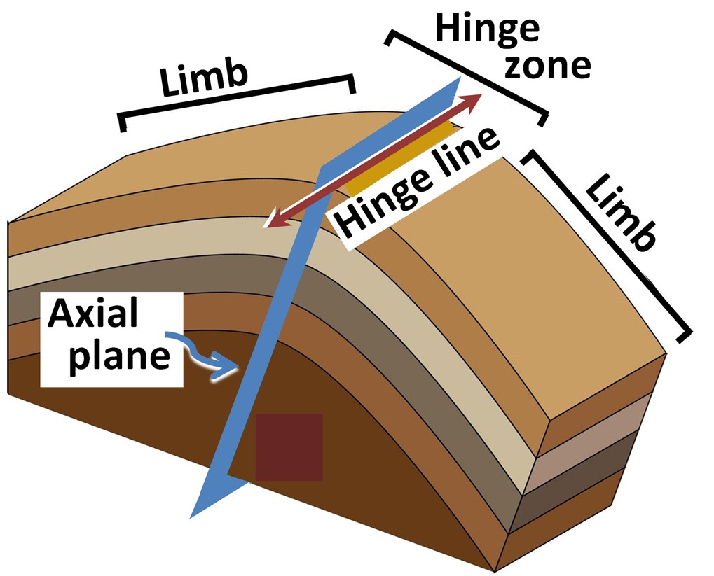 Flank and hinge of geological fold